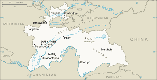 Tajikistan Map (This version of the map includes significant changes from the previous version of the map including changes to the China-Tajikistan border.)